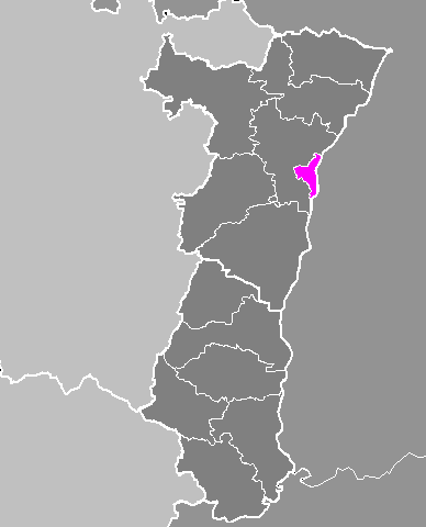 Maps of arrondissements and cantons of France: Arrondissement de Strasbourg-Ville.PNG (Région Alsace)